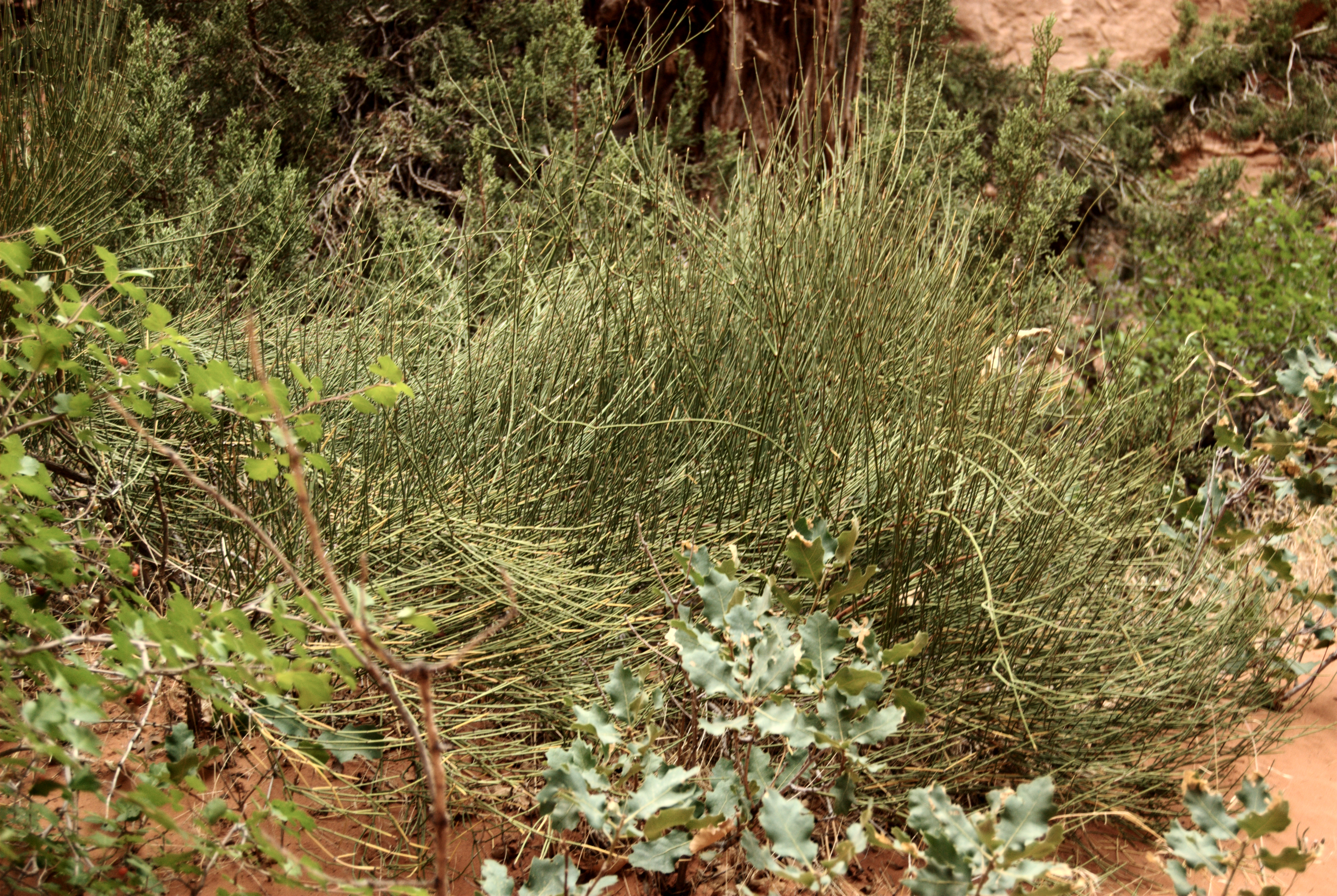 Mormon Tea (Ephedra viridis) in the Fiery Furnace area of Arches National Park near Moab.